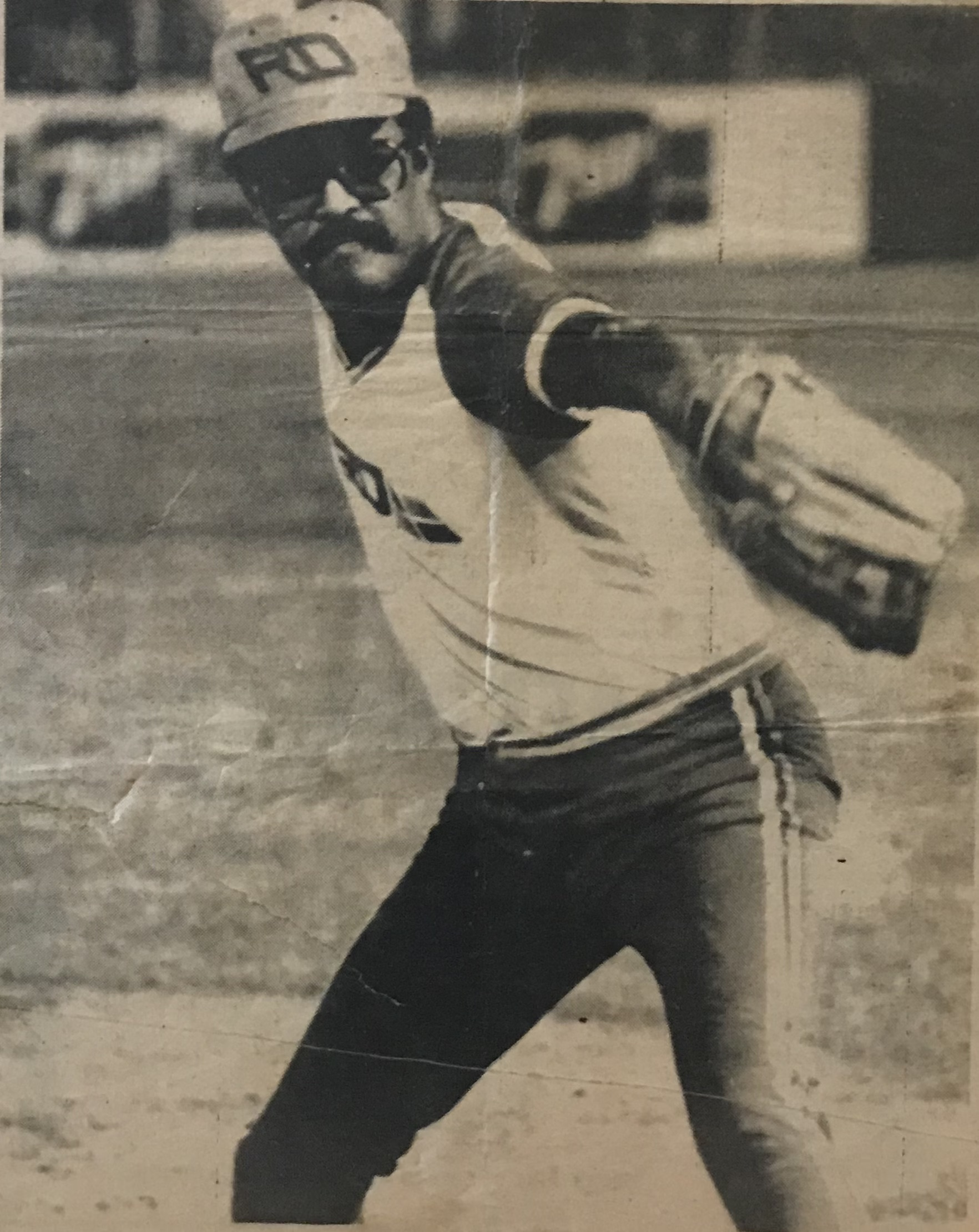 Juegos Centroamericanos Santiago 1986 - Sóftbol